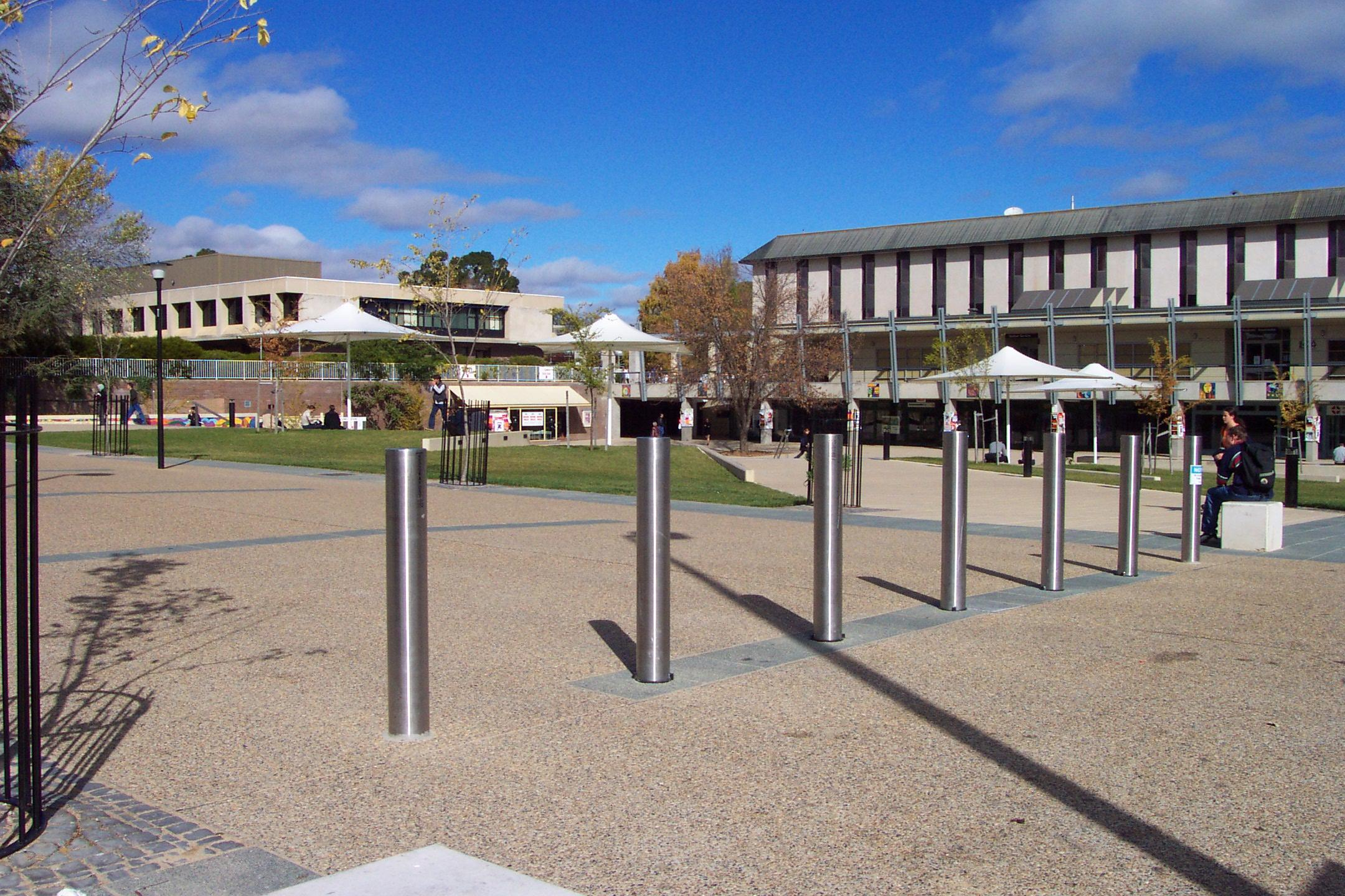 stainless steel bollard picture